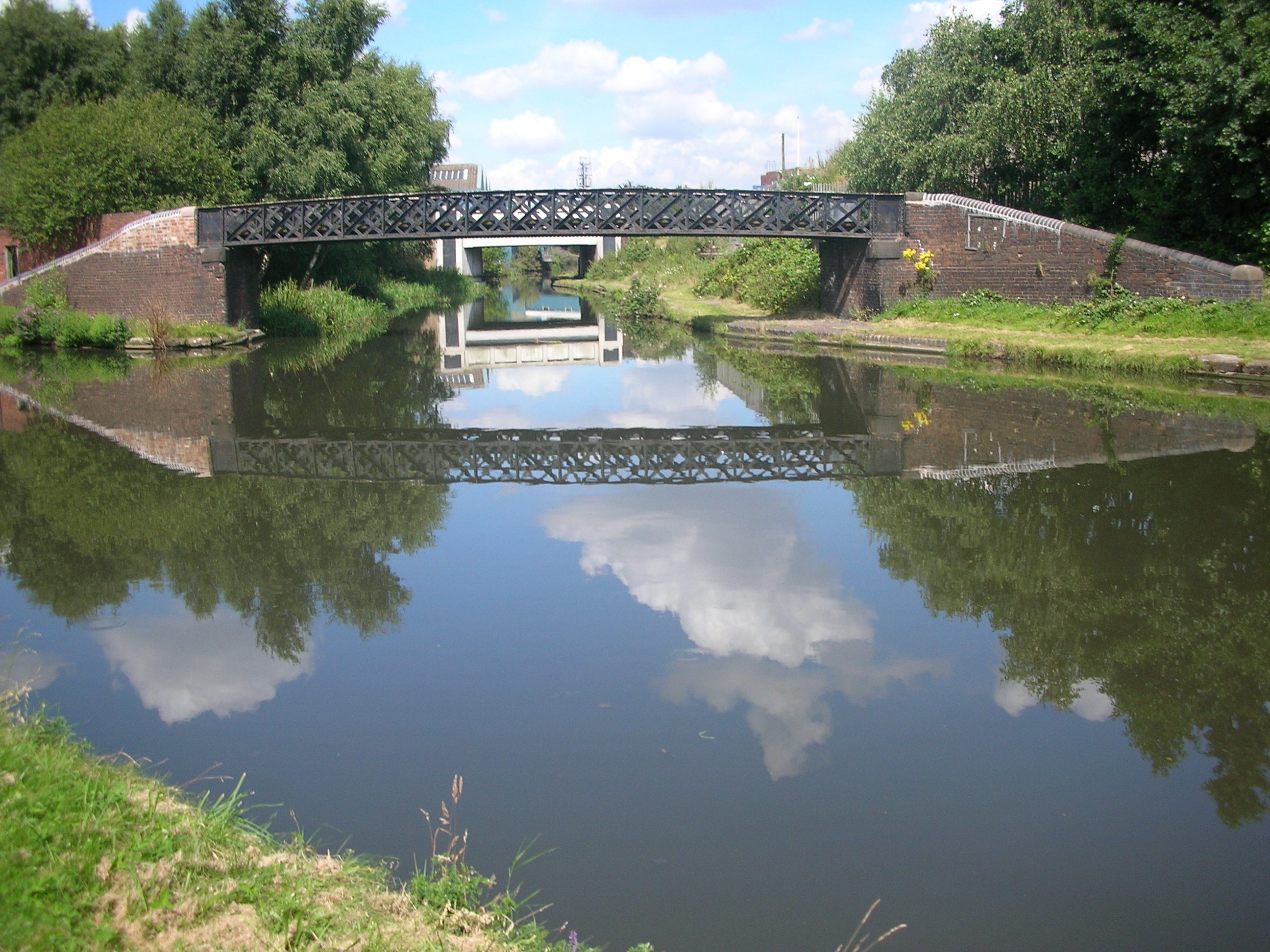 Pudding Green Junction on the BCN New Main Line in Sandwell, West Midlands, England. The Wednesbury Old Canal leads under the bridge northwards towards the Walsall Canal. Photographed by me 9 August 2007. Oosoom